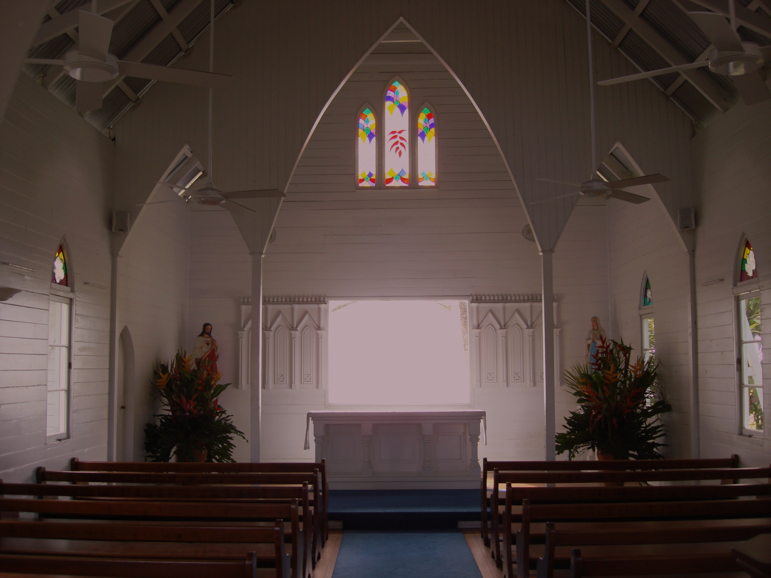 Port Douglas Australia is located 65km north of Cairns International Airport in Tropical North Queensland. In 1986, Saint Mary's was the only church left in Port Douglas and in danger of being demolished.